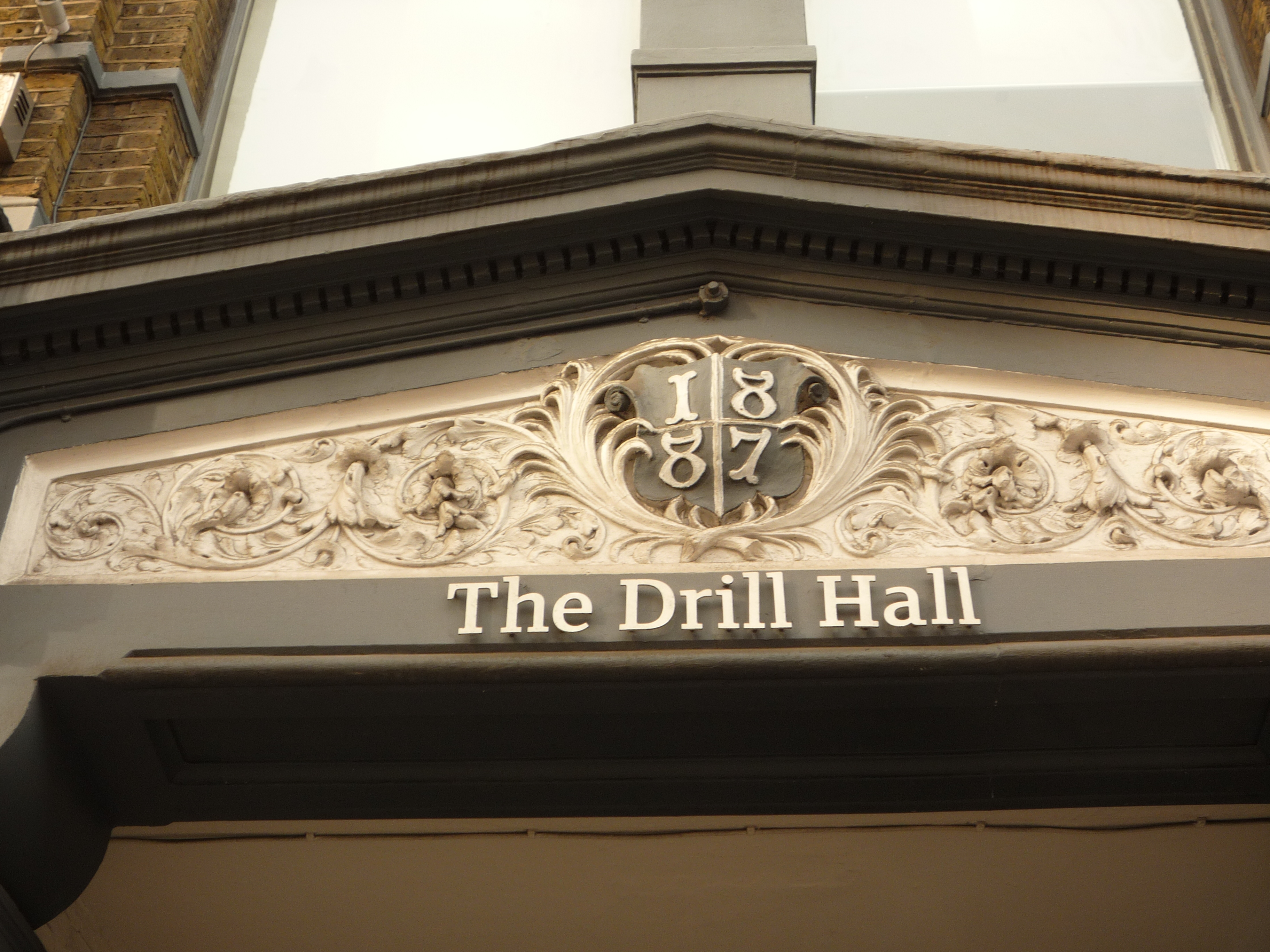 The entrance to the former drill hall of the City of London Rifles at 57a Farringdon Road, London EC1, adjacent to the 'Zeppelin Building'